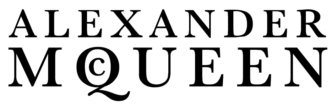 Alexander McQueen logo